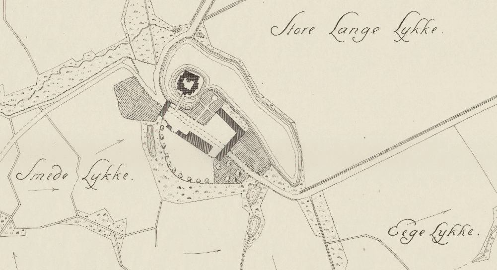 Detail of map of the manor of Rygård in Svendborg amt, measured to scale 1:6000, based on a map from 1809. Probably drawn by Valdemar Koch. Koch made other drawings of Rygård in 1883 and signed most of them.